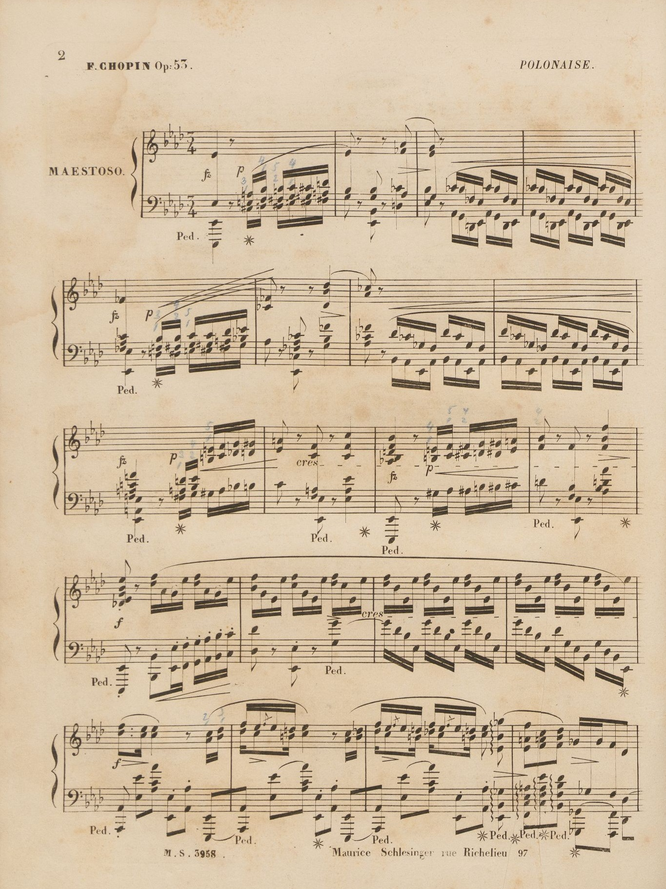 First page: Polonaises, piano, op. 53, A♭ major, by Frédéric Chopin (1810-1849). Published in Paris: Schlesinger, 1843. *Mus.C4555.B846c, Houghton Library, Harvard University